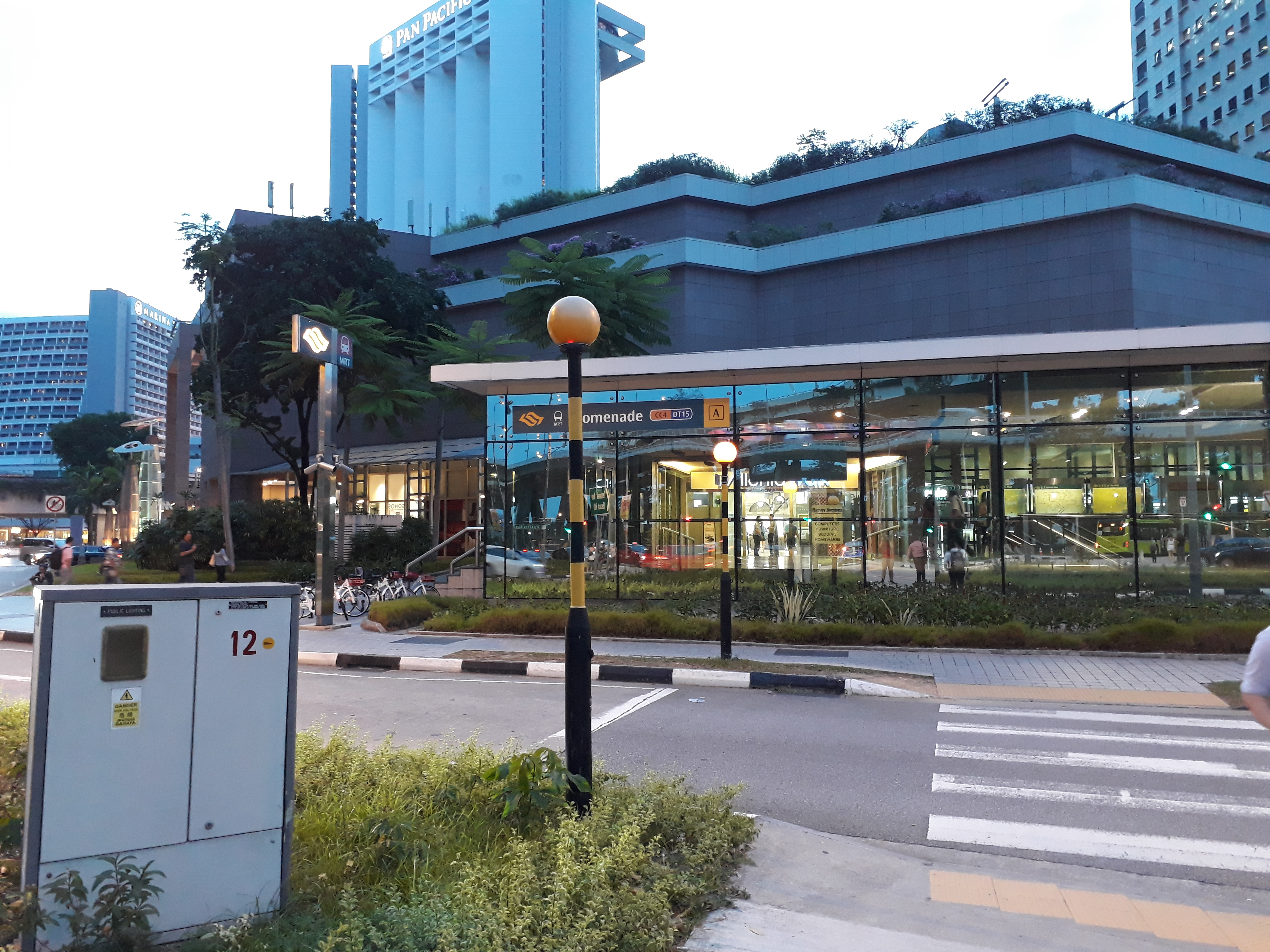 Exit A of Promenade outside Millenia